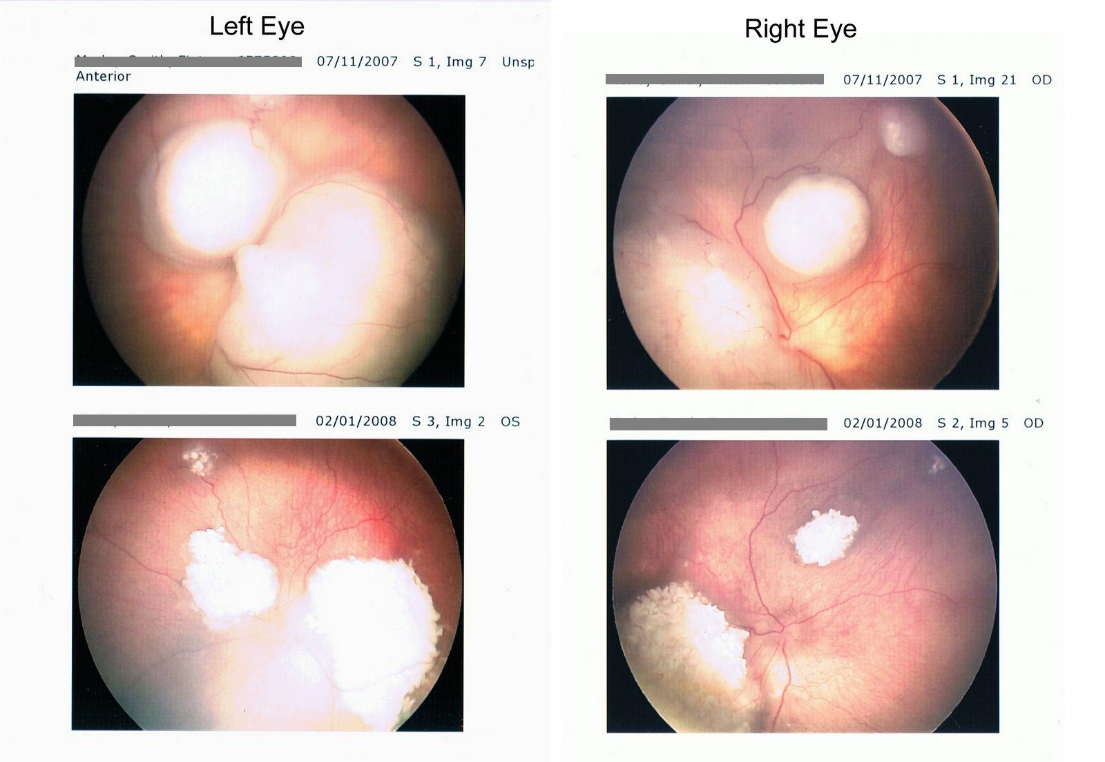 Retinoblastoma retina scan before and after chemotherapy